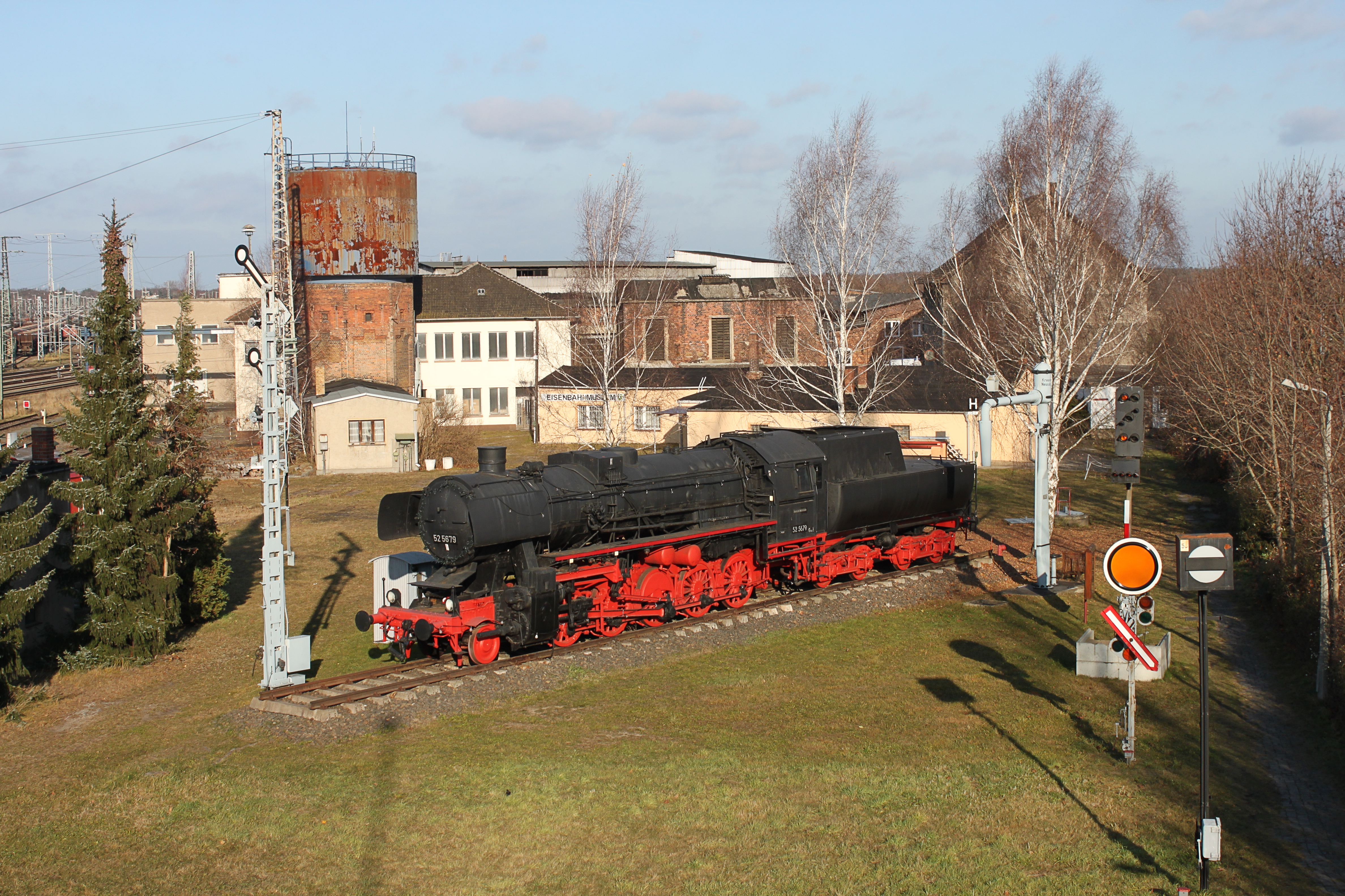 A Deutsche Reichsbahn's Class 52 steam locomotive in the Eisenbahnmuseum in Falkenberg/Elster.